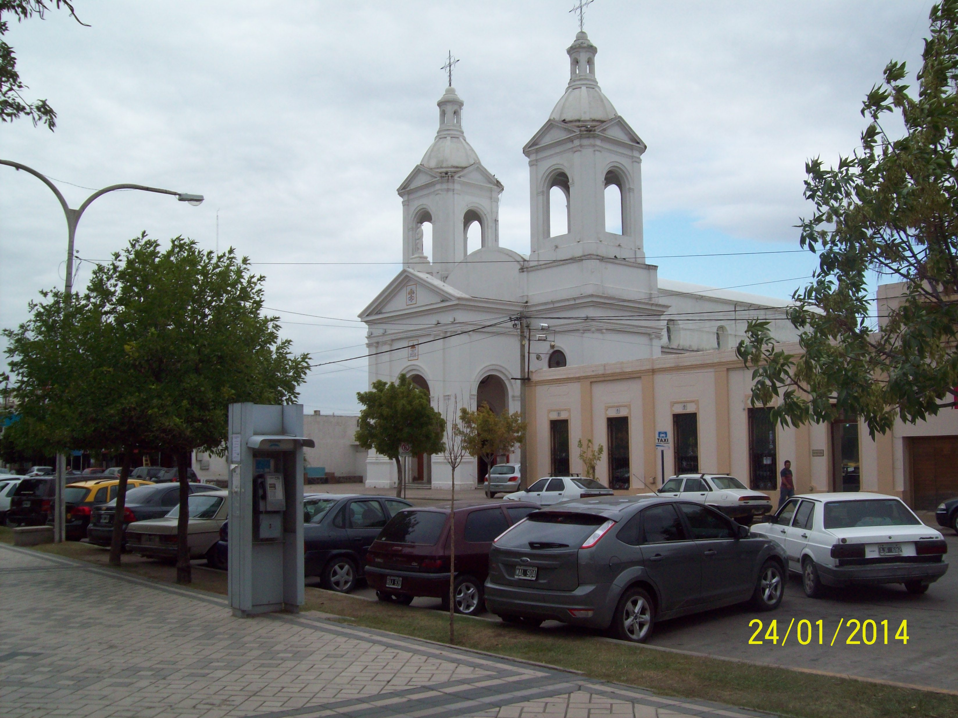 Iglesia principal. Villa Dolores, Córdoba.